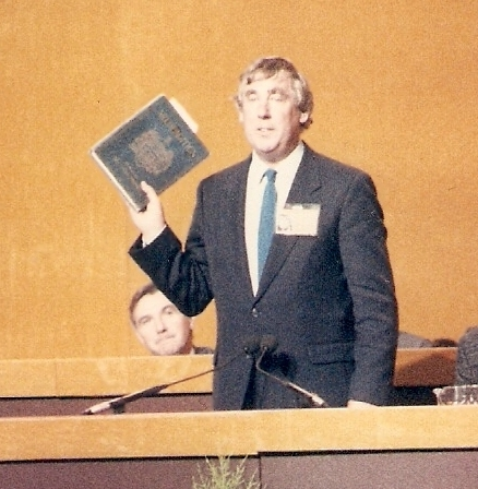 Des Wilson at the Liberal Assembly 1987